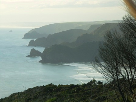 Piha 1 - photo taken and uploaded by Paul Moss, Photographer, Artist, Paul Moss Photographer Artist NZ